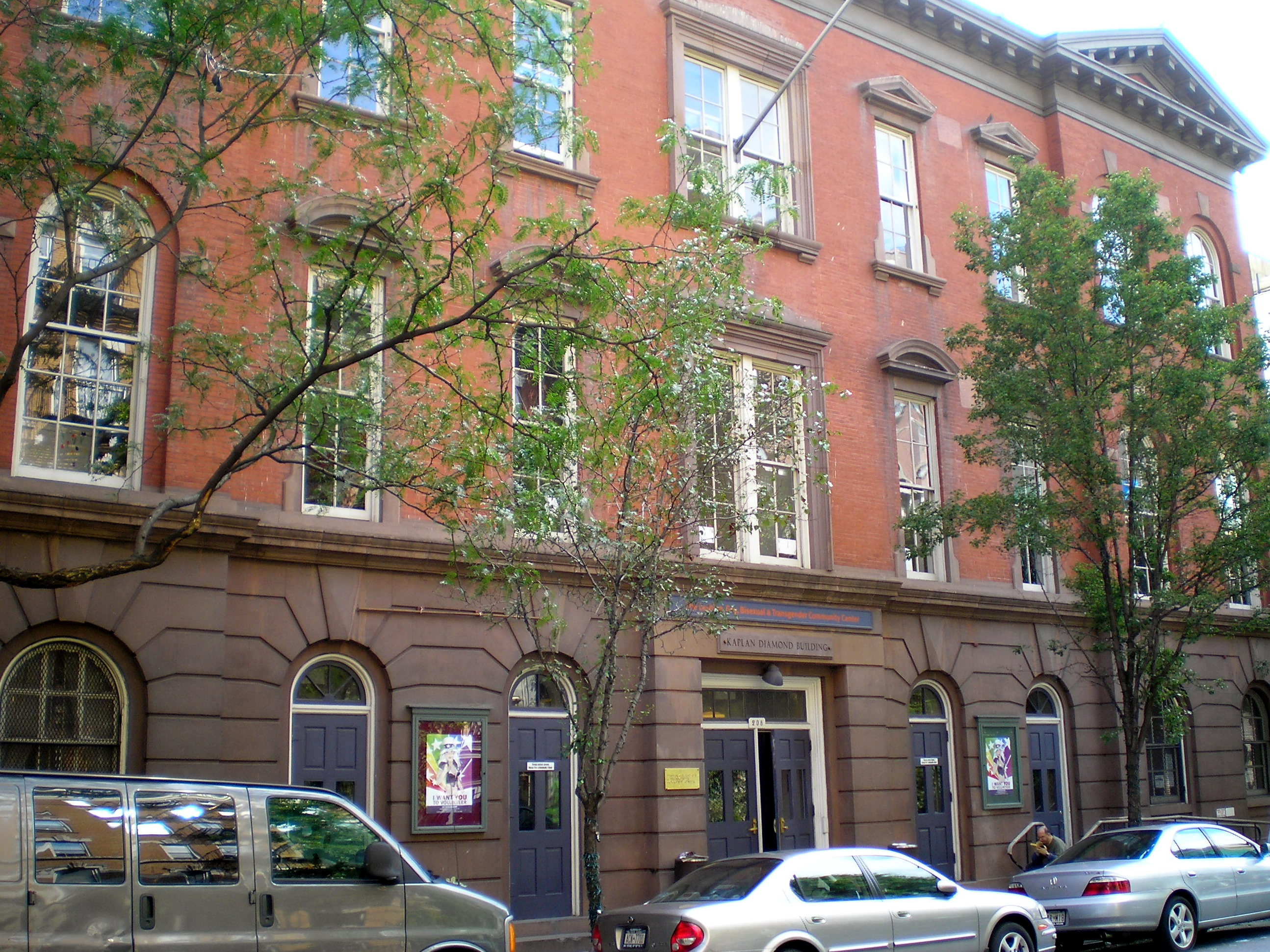 Gay and Lesbian Community Center at 208 West 13th Street between Seventh and Greenwich Avenues in the West Village neighborhood of Greenwich Village, Manhattan, New York City. The building was constructed c.1925 and is located in the Greenwich Village Historic District.